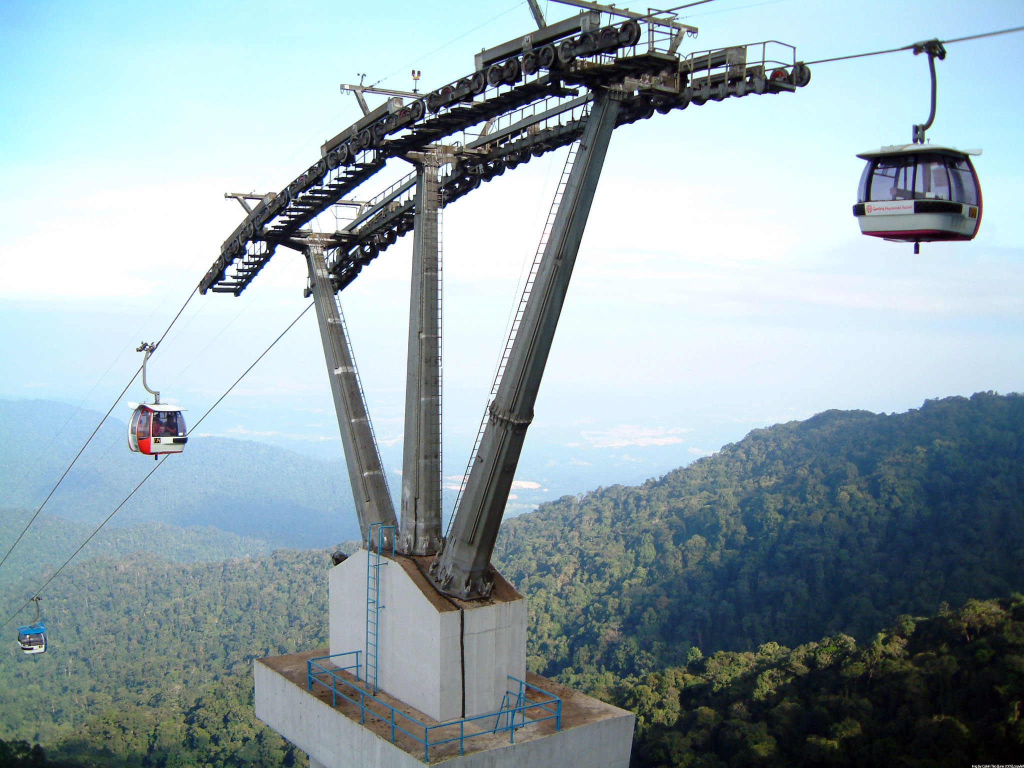 Top part of 45 m high aerial lift pylon of Genting Skyway, Genting Highlands, Pahang, Malaysia Img by Calvin Teo, June 2005